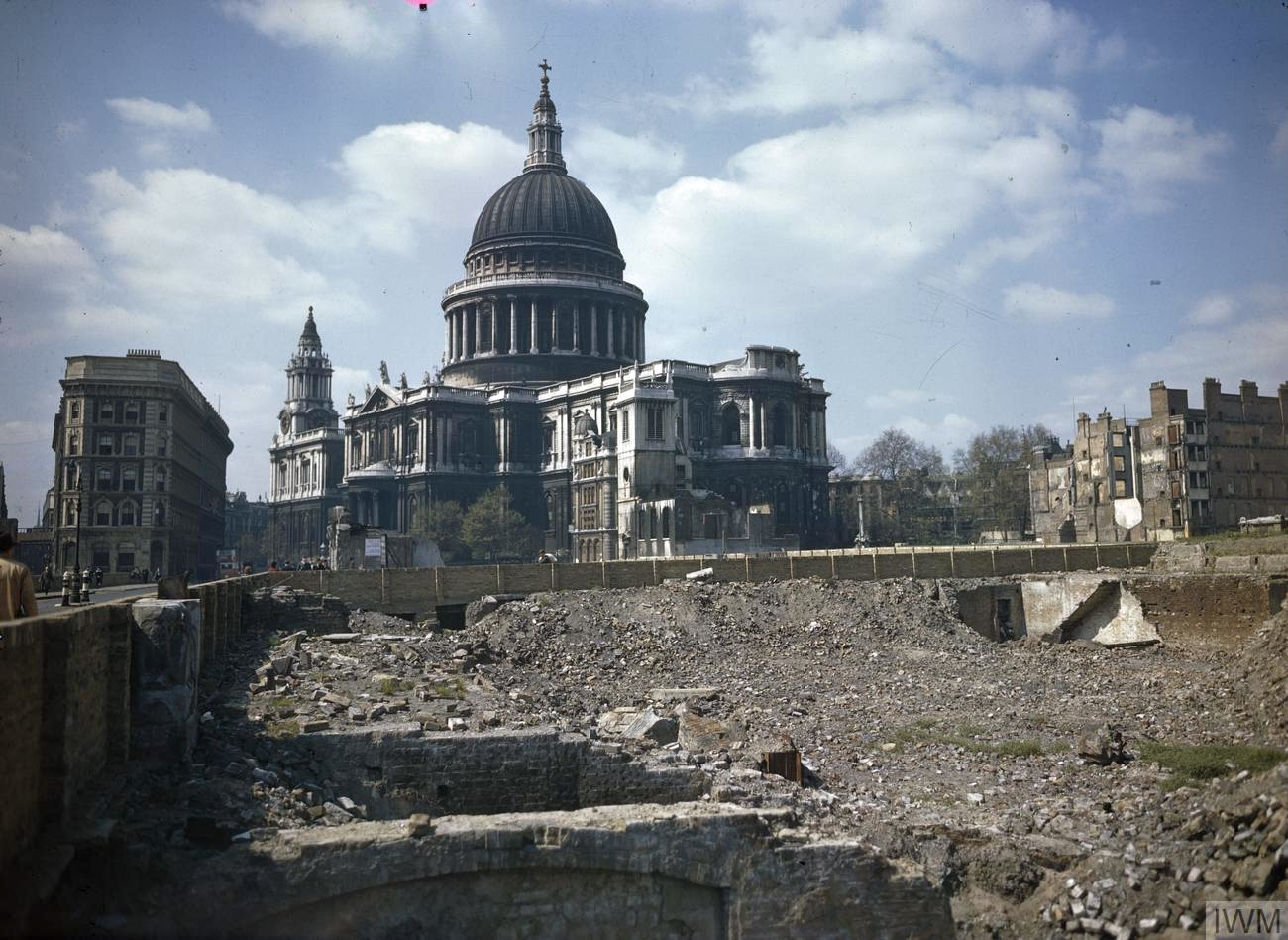 The Home Front in Britain 1939-1945 View of St Paul's Cathedral and the bomb damaged areas surrounding it in London.